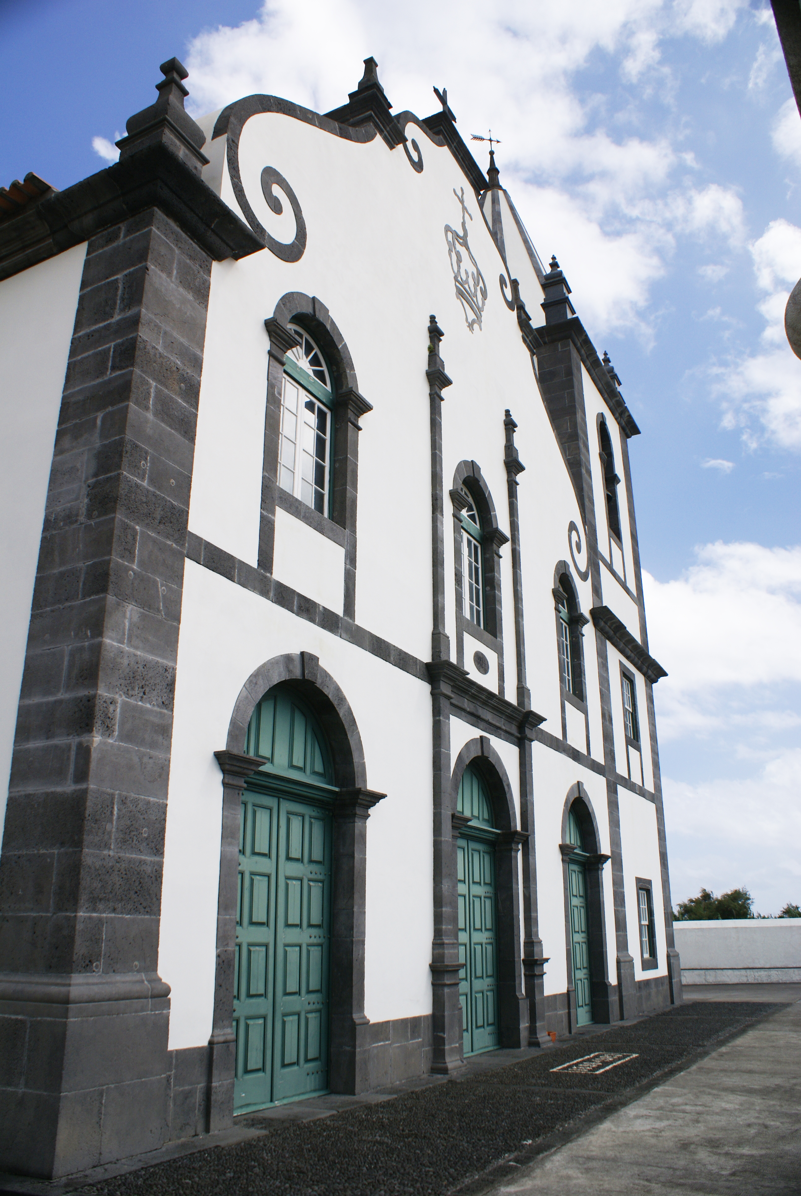 Front façade of the Church of the Divino Espírito Santo, Feteira, Horta, Faial (Azores), Portugal